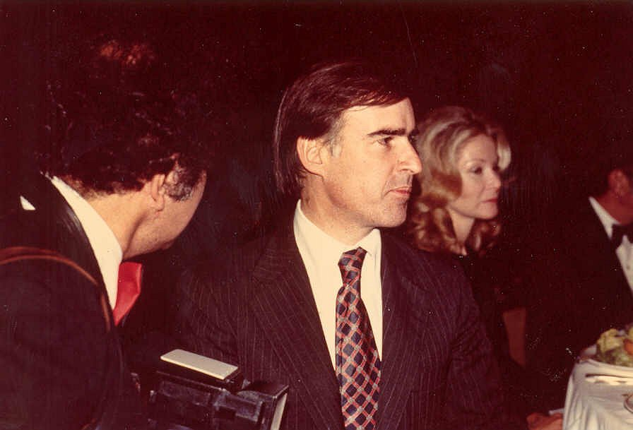 California Governor Jerry Brown at the premiere of Sylvester Stallone's movie F.I.S.T., April 1978 - Permission granted to copy, publish, broadcast or post but please credit "photo by Alan Light" if you can